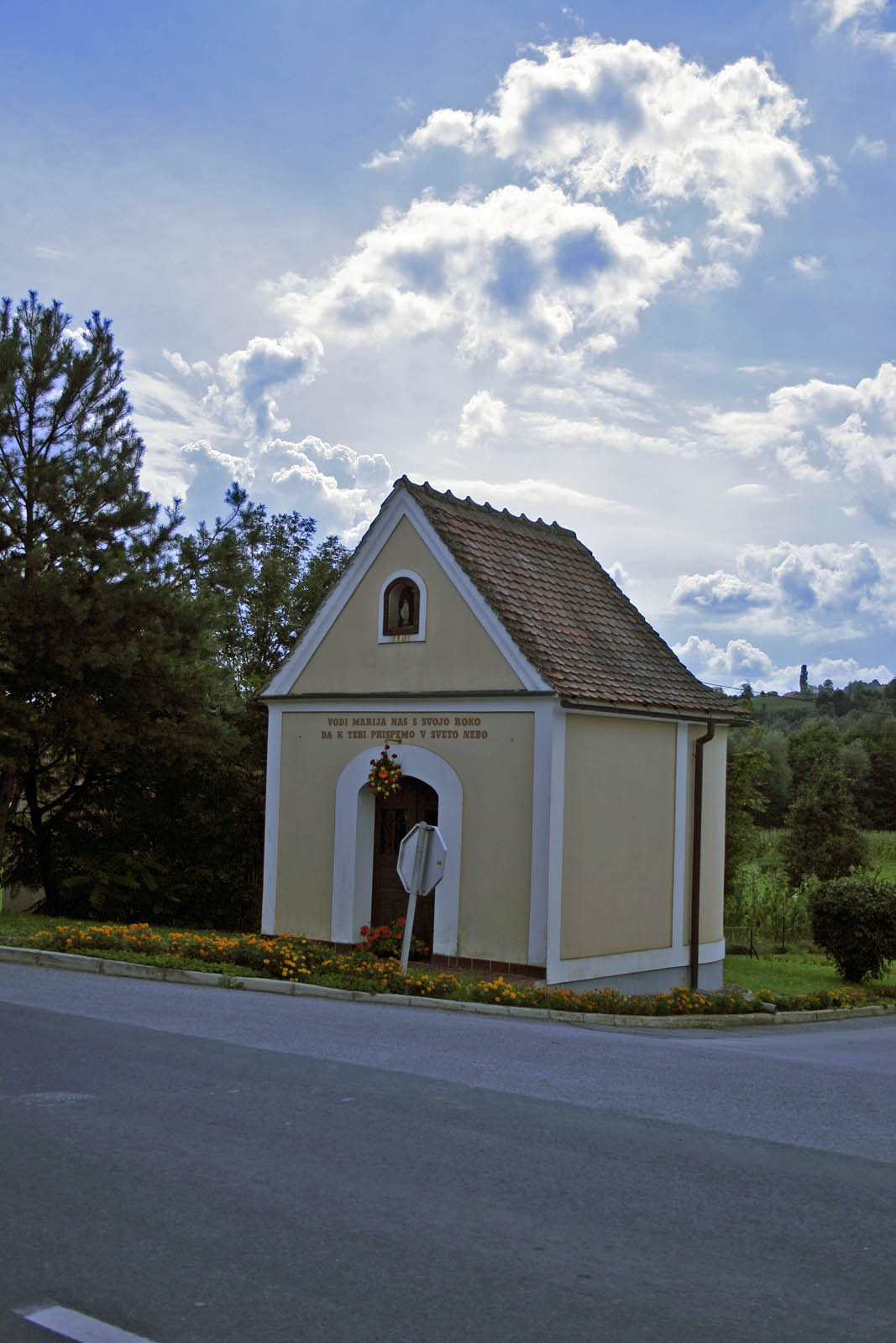 Chapel Rogašovci Slovenia